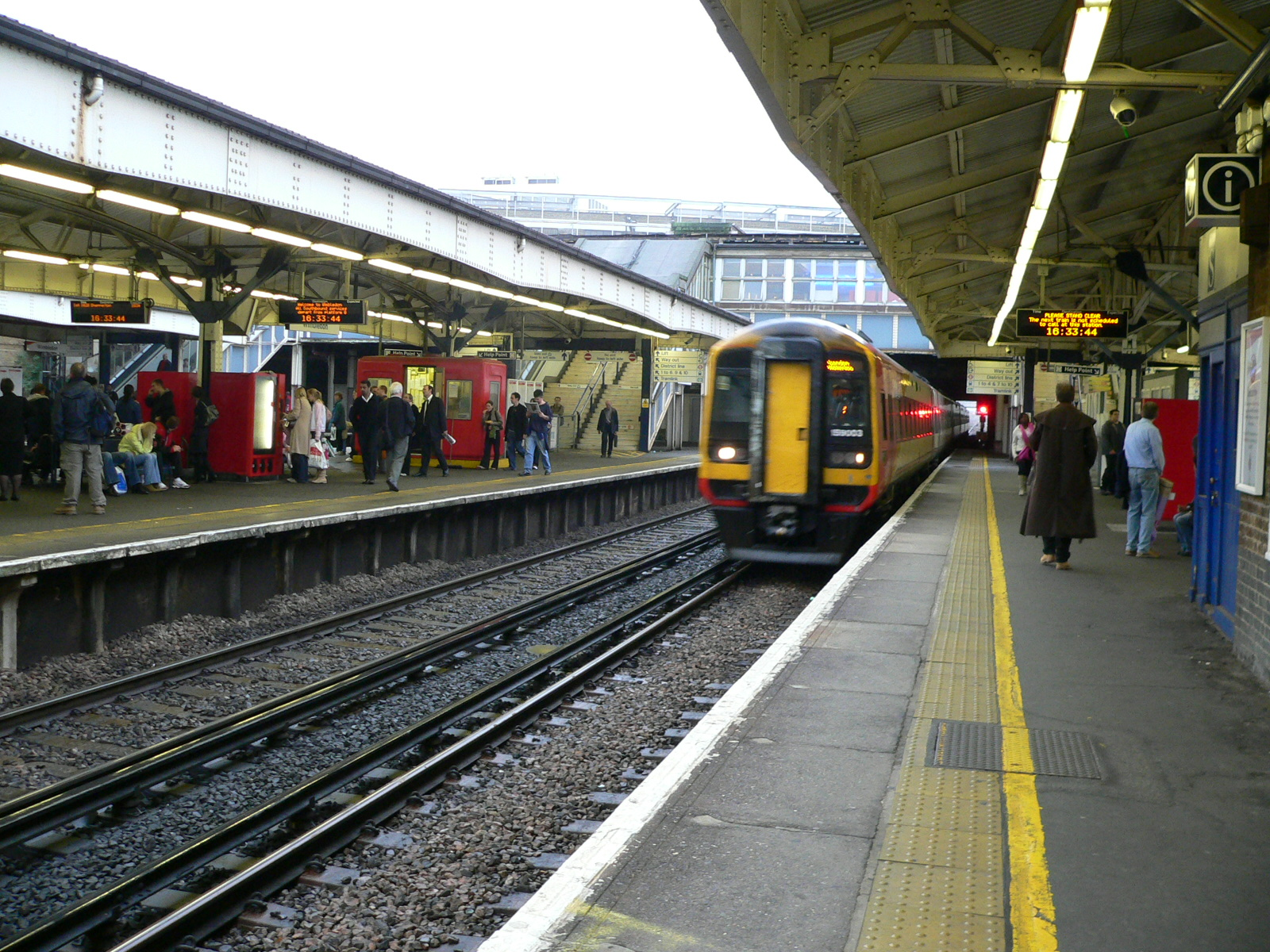 South West Trains Class 159 159003 diesel multiple unit passes through Wimbledon station without stopping, en route to London Waterloo on 24 October 2005.